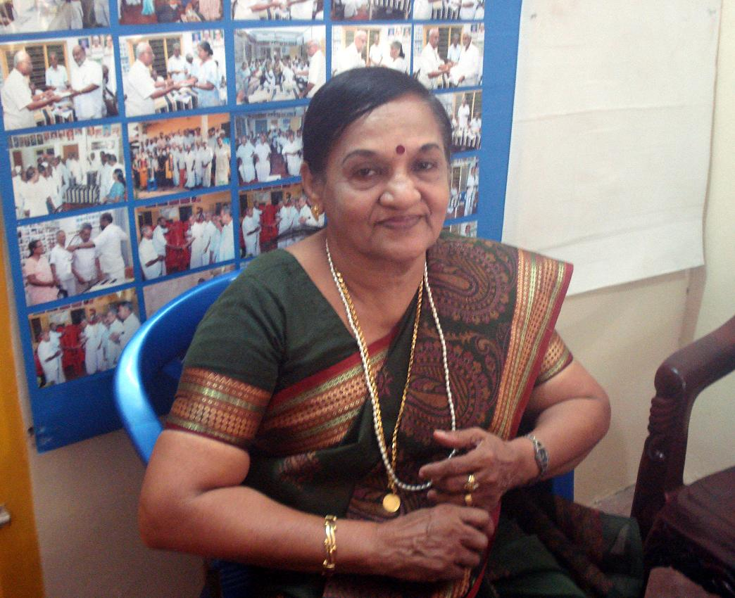 Valliteacher Teacher actor award winner